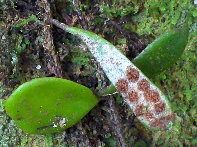 Sori of Rock Felt Fern Pyrrosia rupestris at Chatswood West.